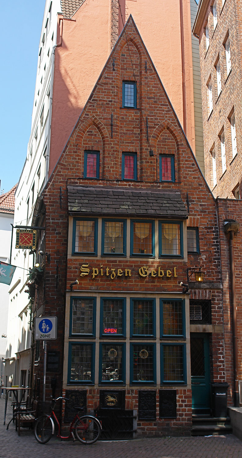 Spitzen Gebel (literally: "pointed gable") is a historic building in the centre of Bremen, Germany. Located at No. 1, Hinter dem Schütting, it dates back to the 13th century Das abgebildete Objekt ist ein geschütztes Kulturdenkmal in der Freien Hansestadt Bremen, mit der Nr. 0602 beim Landesamt für Denkmalpflege registriert.